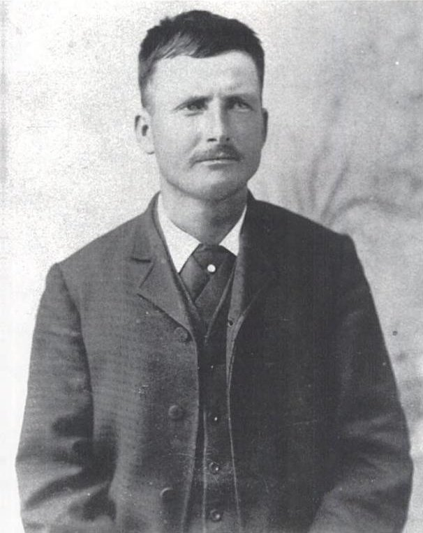 Depicted person: Dan Bogan – American gunfighter